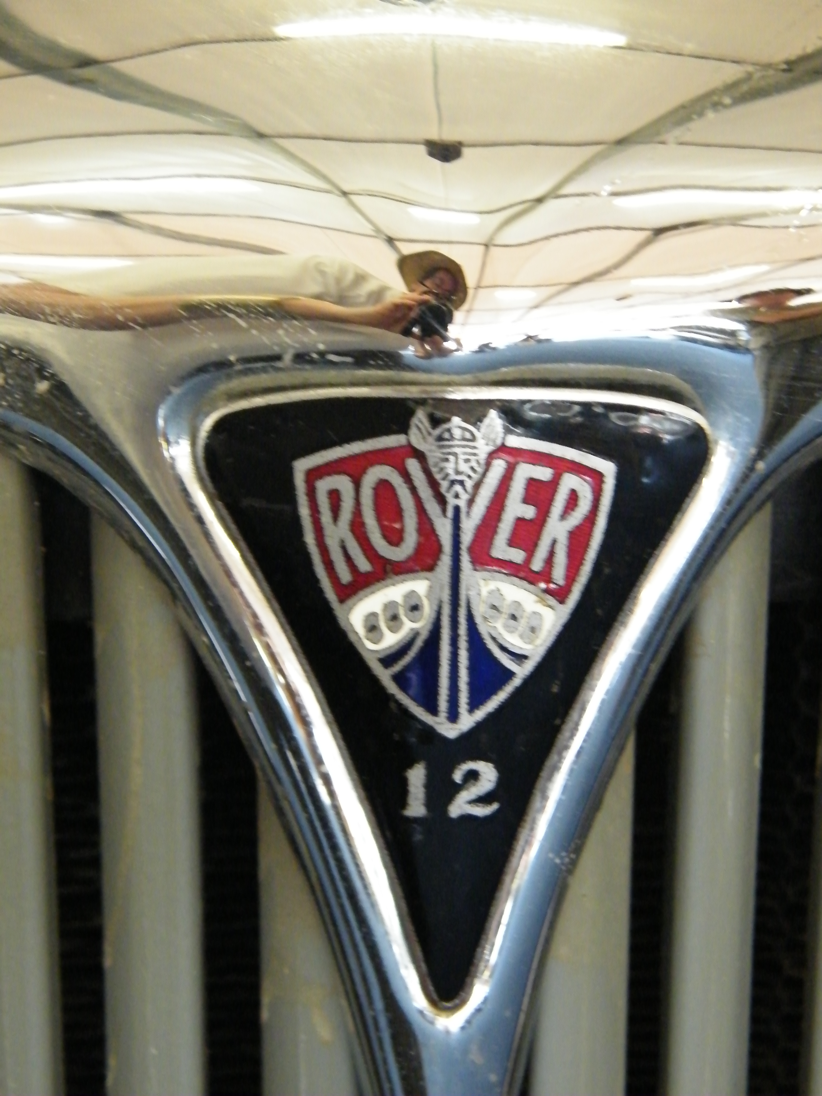 1934 Rover 12 sports bonnet badge Kent County Showground, Detling April 9th. 2011 Heritage Transport Show